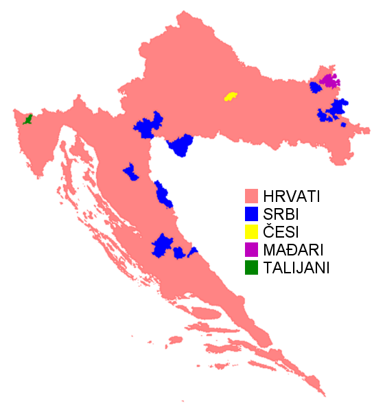 Ethnic map of Croatia-majorities by municipalities Croatians Serbians Czechs Hungarians Italians